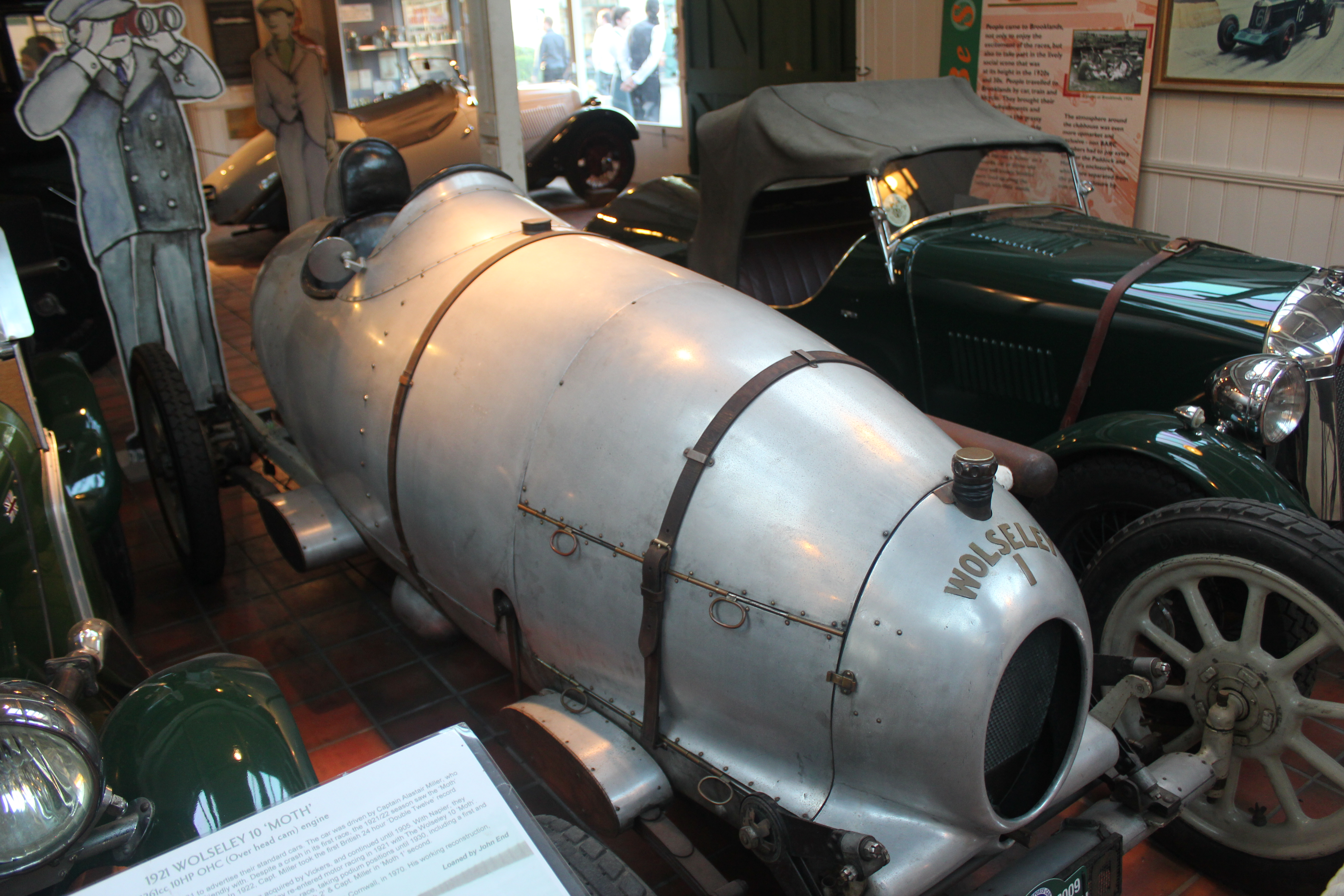 1921 Wolseley 10 'Moth'